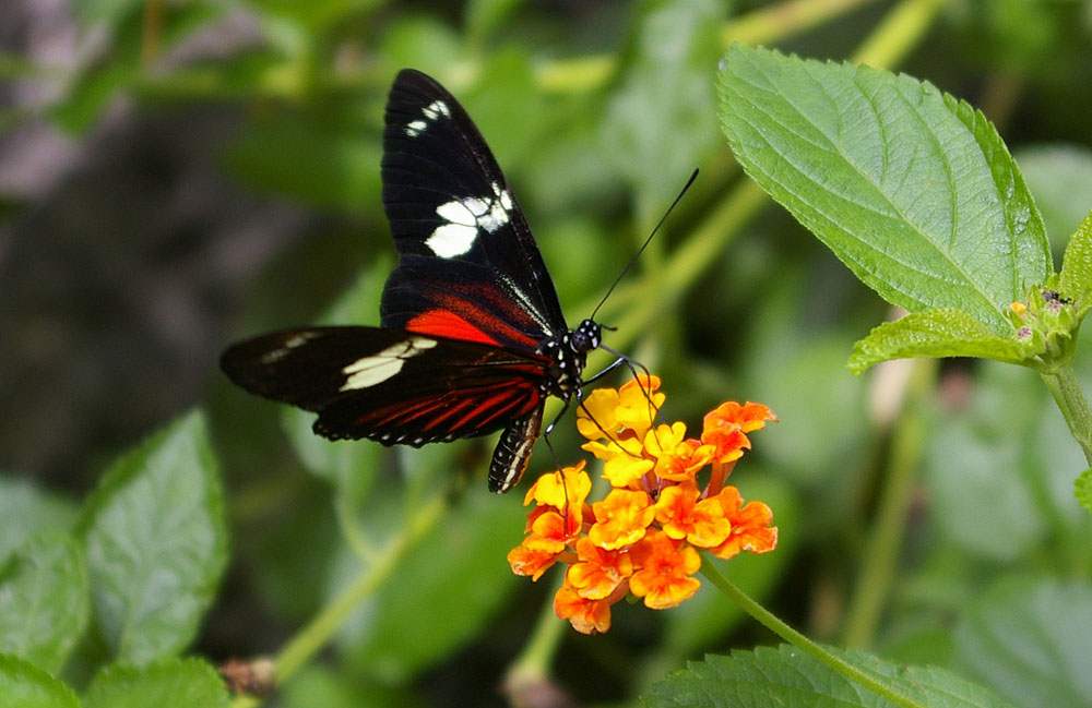 Doris Heliconius doris Linnaeus butterfly. Characteristics are two white spots on fore-wing, scalloped margin of hind wing, marginal row of small, white spots along the hind wing. The fan with fingers is orange here but can also be blue or green. Photograph taken in the Costa Rican Glasshouse at the Cleveland Botanical Gardens by Joy Schoenberger in 2007.